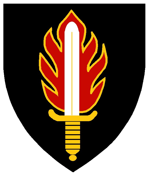 This is the Badge of the Danie Theron Combat School (Afrikaans: Danie Theron Krygskool), being the South African Army Intelligence School. The Motto is "Lux Ad Gladium" (Light for the Sword).